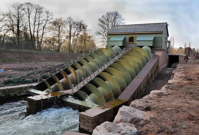 Monmouth New Hydro Scheme This exciting New Hydro Scheme is the brainchild of a prominent local businessman. It is constructed on the site of the Old Monmouth Hydro Station. The original Monmouth Hydro Station commenced operations on 10th June 1899. In 1930 Monmouth Corporation sold the station to a subsidiary of the General Electric Company, which continued to operate it up until 1948. It finally closed down in 1953. The old plant comprised 3 35hp turbines made by Gilbert Gilkes & Co,together with standby steam engines and also a 100hp Ransoms,Sims & Jeffreys of Ipswich steam engine driving a 60kW generator. In 1922 the site was extended and larger turbines fitted. The new Hydro scheme works on the Archimedes Screw Principle and uses water from the River Monnow. The head of water is only 3.4 metres. Each "Screw" produces 75 kilowatts of power and turns at only 20 RPM. The new scheme commenced operations in February 2009. There are believed to be only two other similar schemes in the UK.